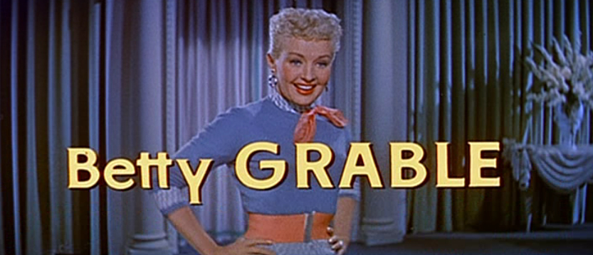 Cropped screenshot of Betty Grable in the trailer for the film How to Marry a Millionaire